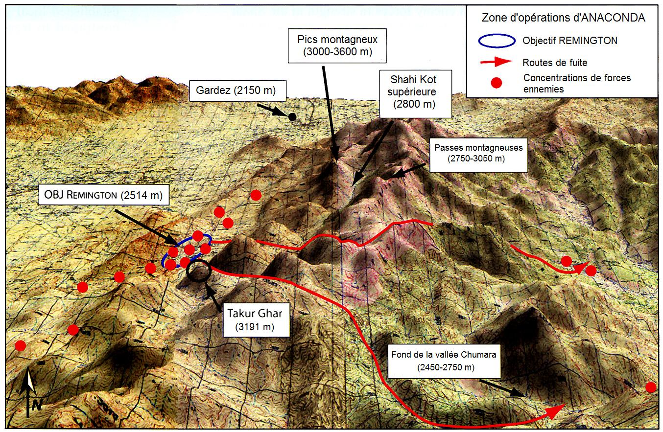 French-speaking version of File:AnacondaAreaOfOperations.jpg